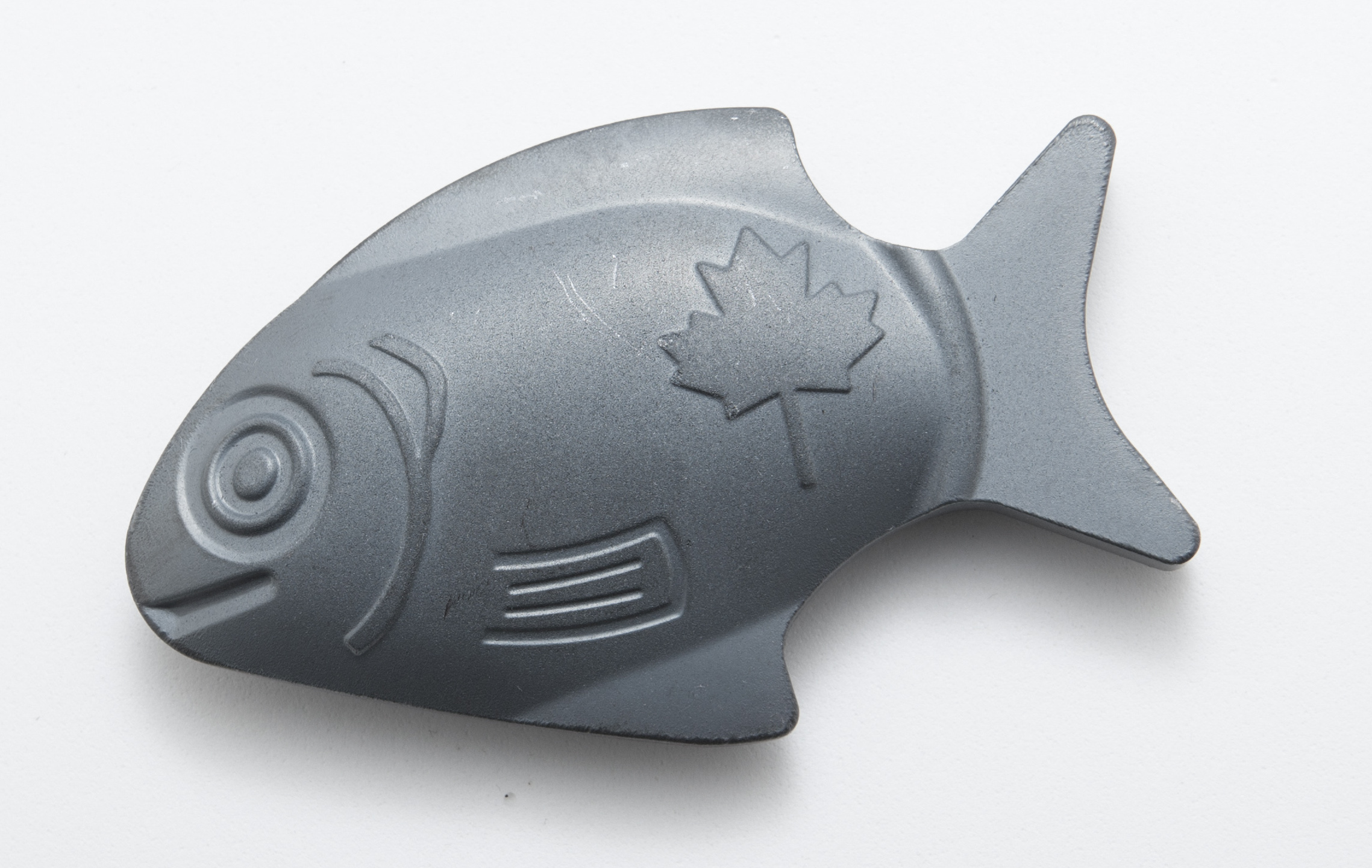 Product